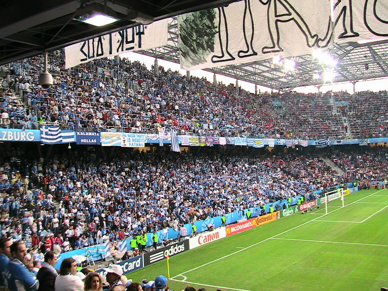 Greek supporters at Euro 2008